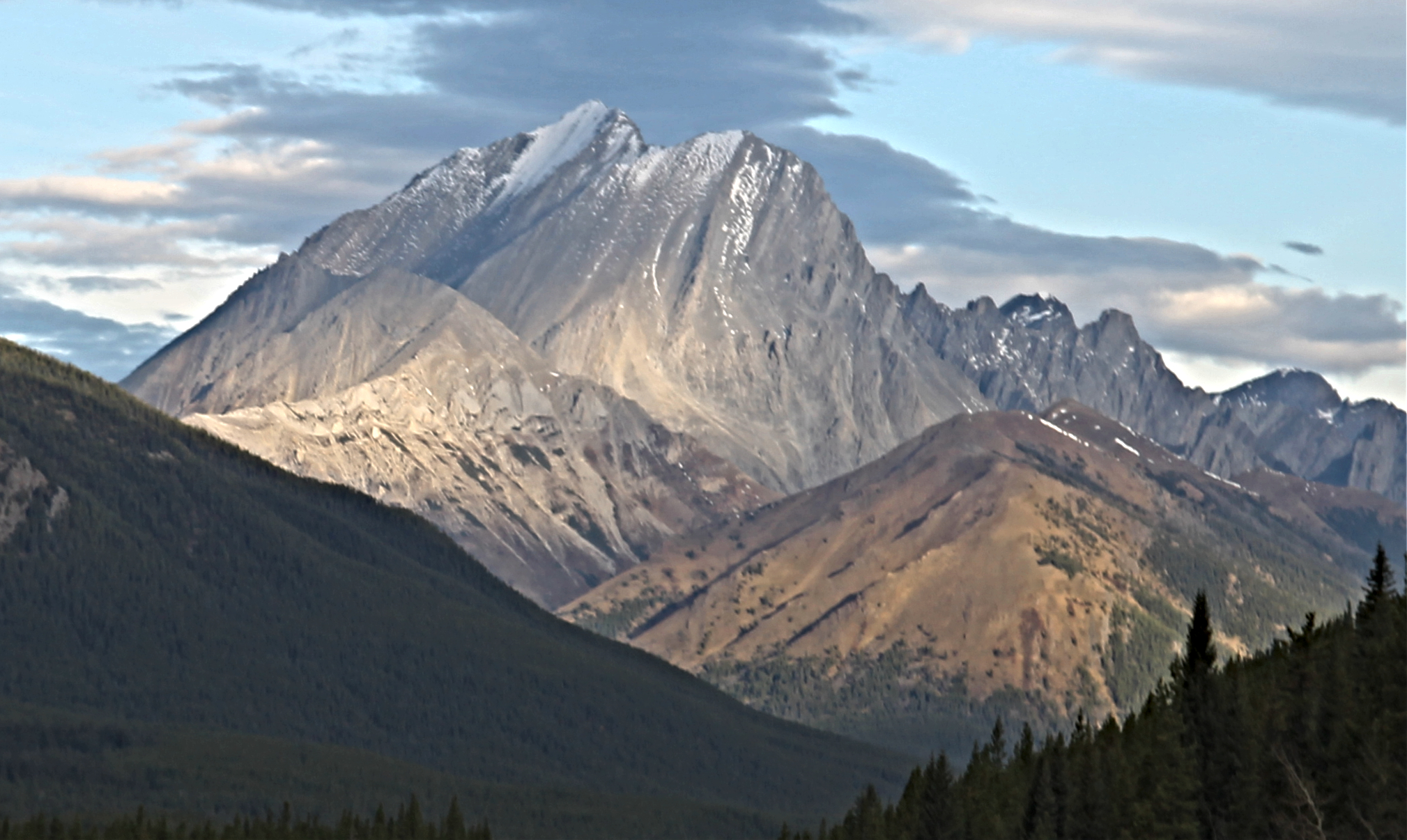 Mist Mountain, Highwood Pass in Kananaskis Country of Alberta Canada